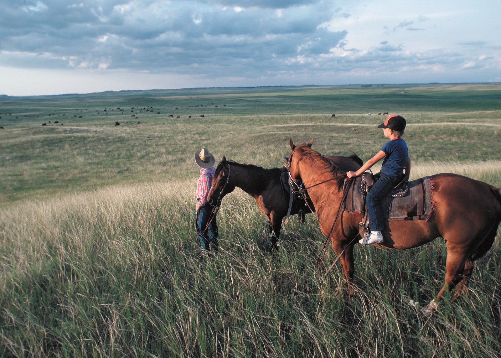 Photograph of rancher and son assessing cattle herd grazing the rolling prairie grasslands, Prairie Pothole Region, South Dakota. Photograph by Tim McCabe, United States Department of Agriculture, Natural Resource Conservation Service, 2011.